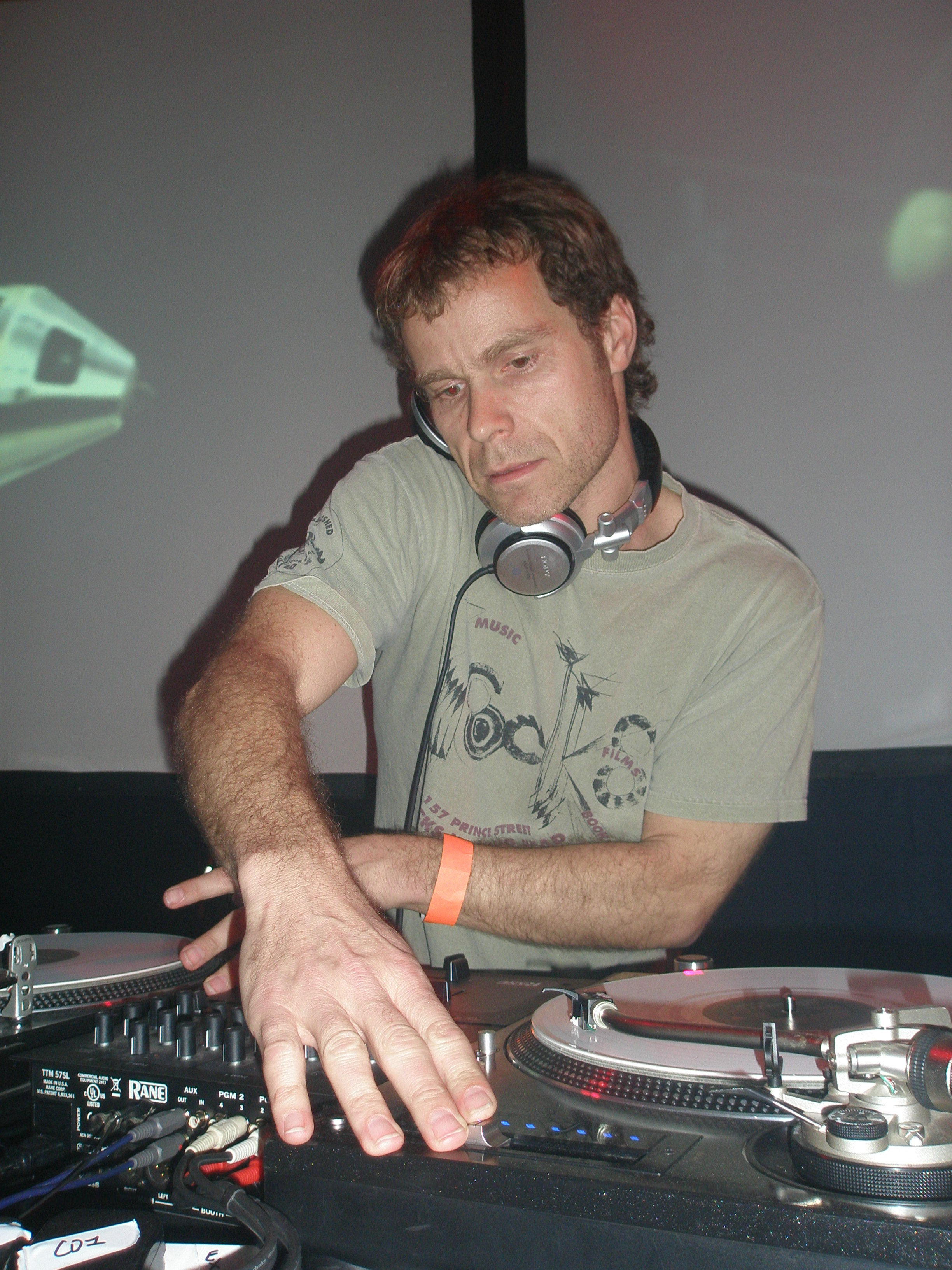 Darren Knott alias DK performing (with DJ Food) for The Remix All-Nighter at SeOne Club in London (England) on March 20th, 2008.